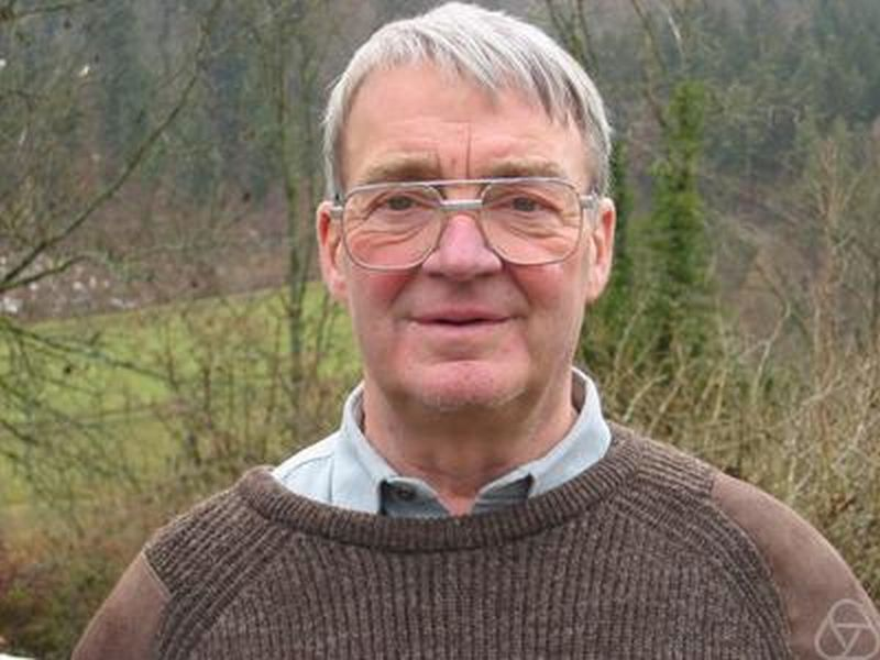 Julius Wess, Oberwolfach 2006